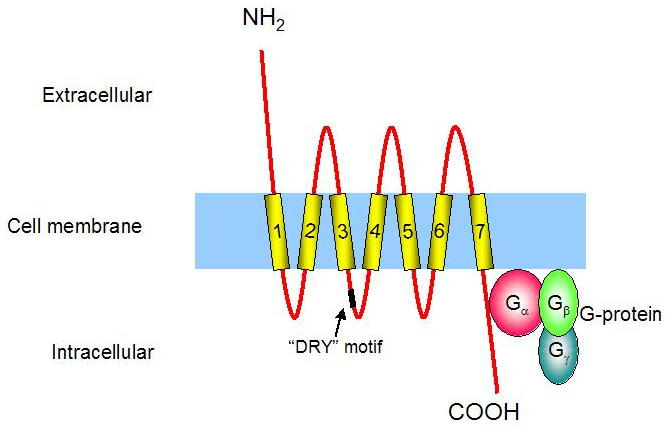 Typical chemokine receptor structure showing seven transmembrane domains and a chanracteristic "DRY" motif in the second intracelluar domain.